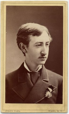 Carte De Visite, William Harlan (brother of Mary Harlan Lincoln), head and shoulders, flower on jacket lapel.